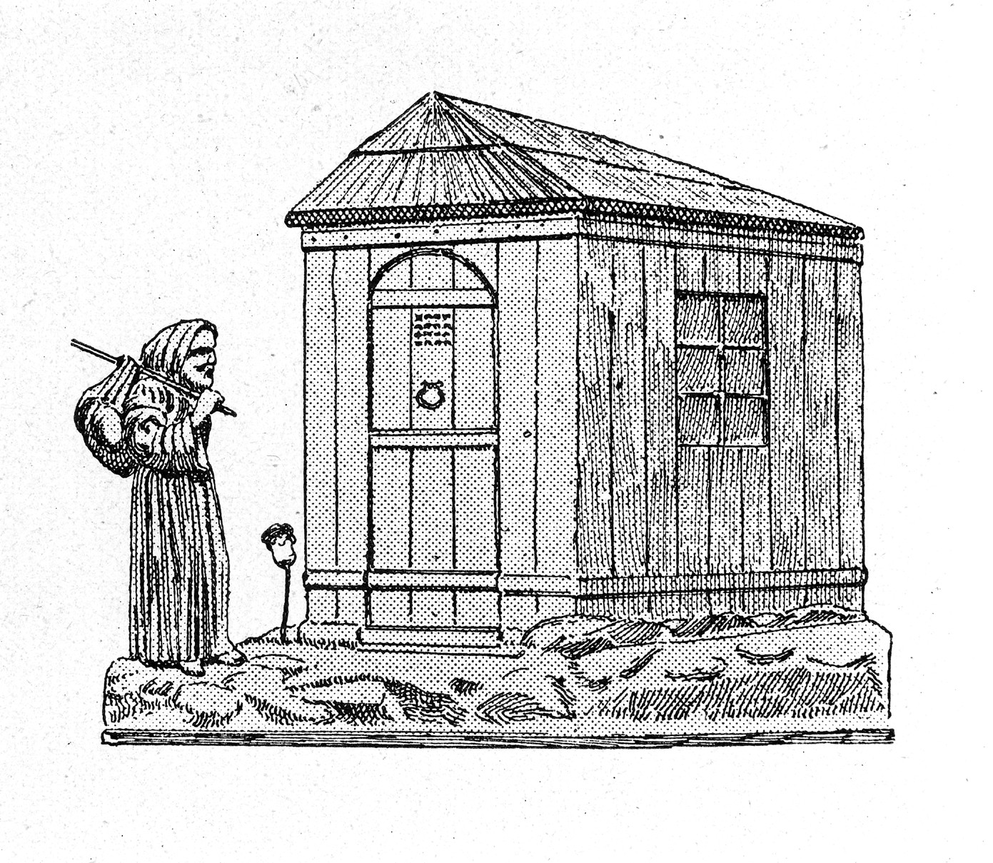 Lepers' retreat in cast iron; 15th century. Wellcome Images Keywords: Cabanes; Leprosy; G. Payraud